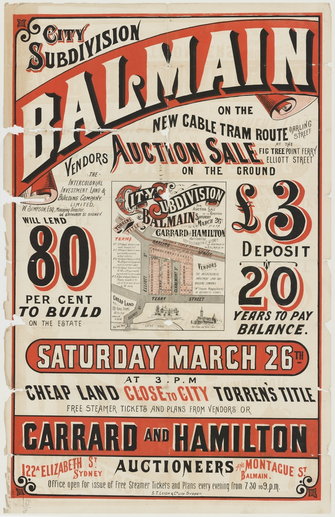 City Subdivision Balmain, Darling St, Elliott St, Terry St, Claremont St, 1841-1960, State Library of New South Wales M Z/ SP/ B2